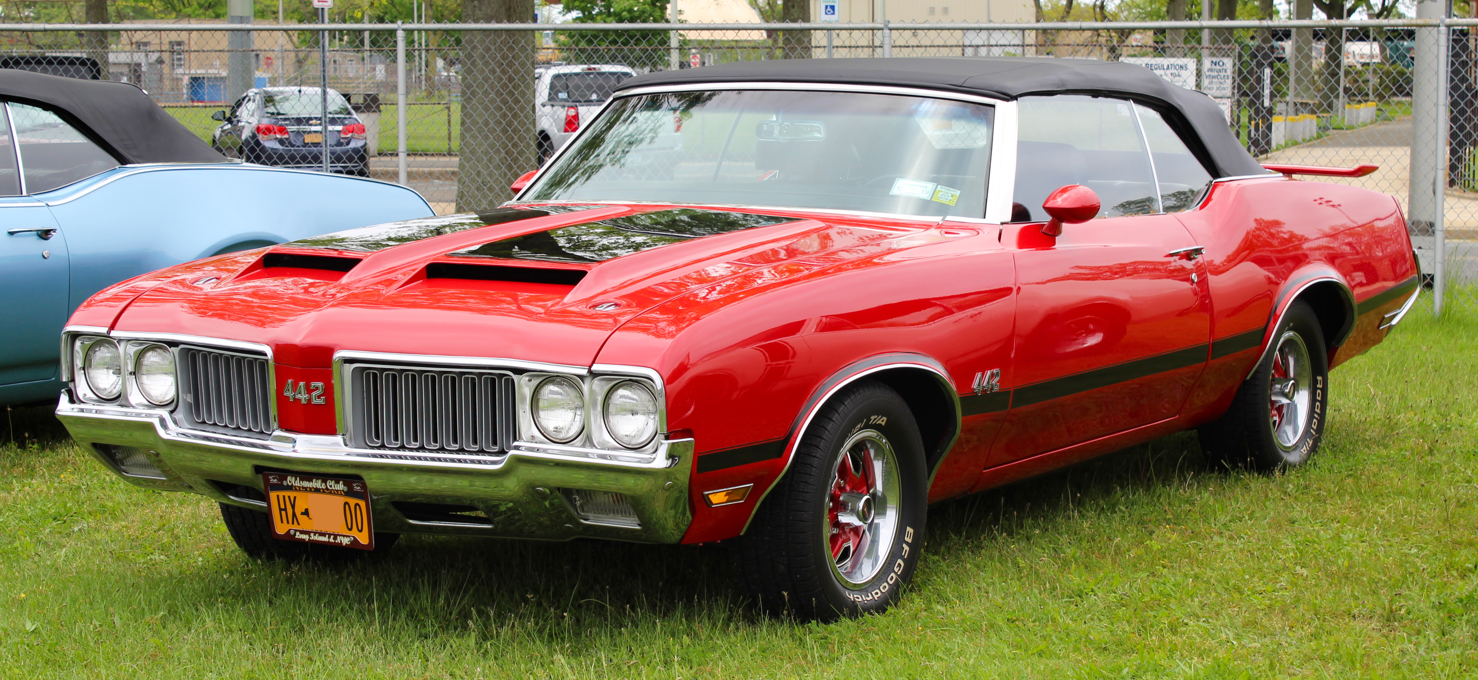 A 1970 Oldsmobile 442 displayed during at a classic car show, in Merrick, New York, USA